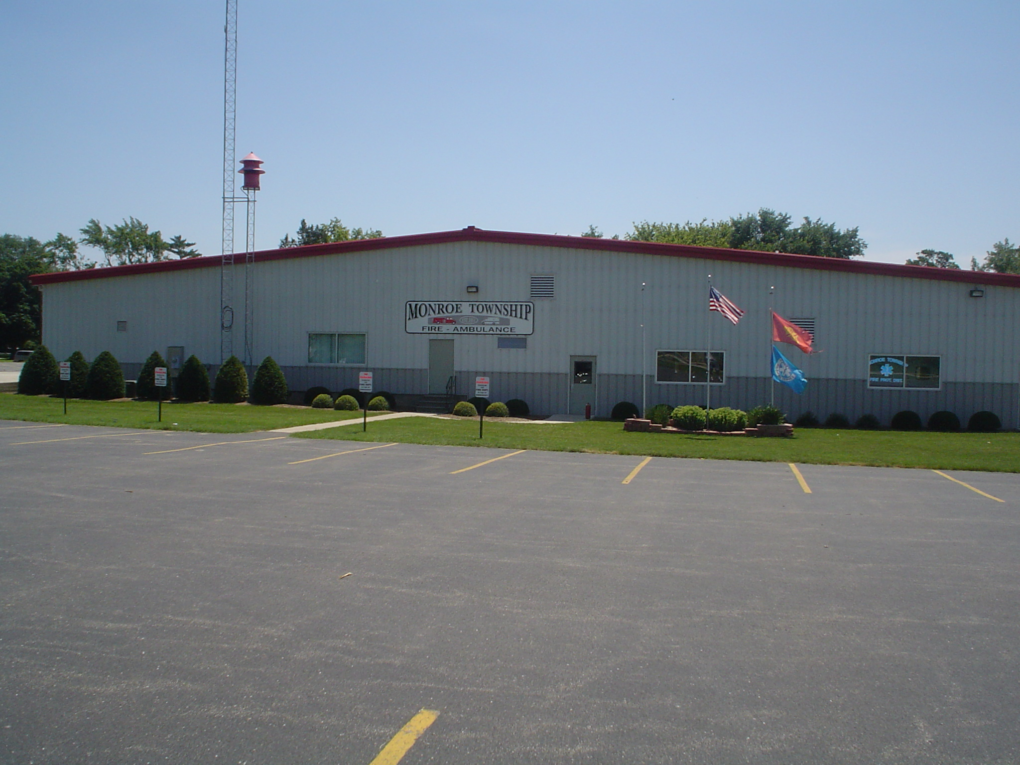 Picture of the fire station in Monroe Center, Illinois, Illinois.